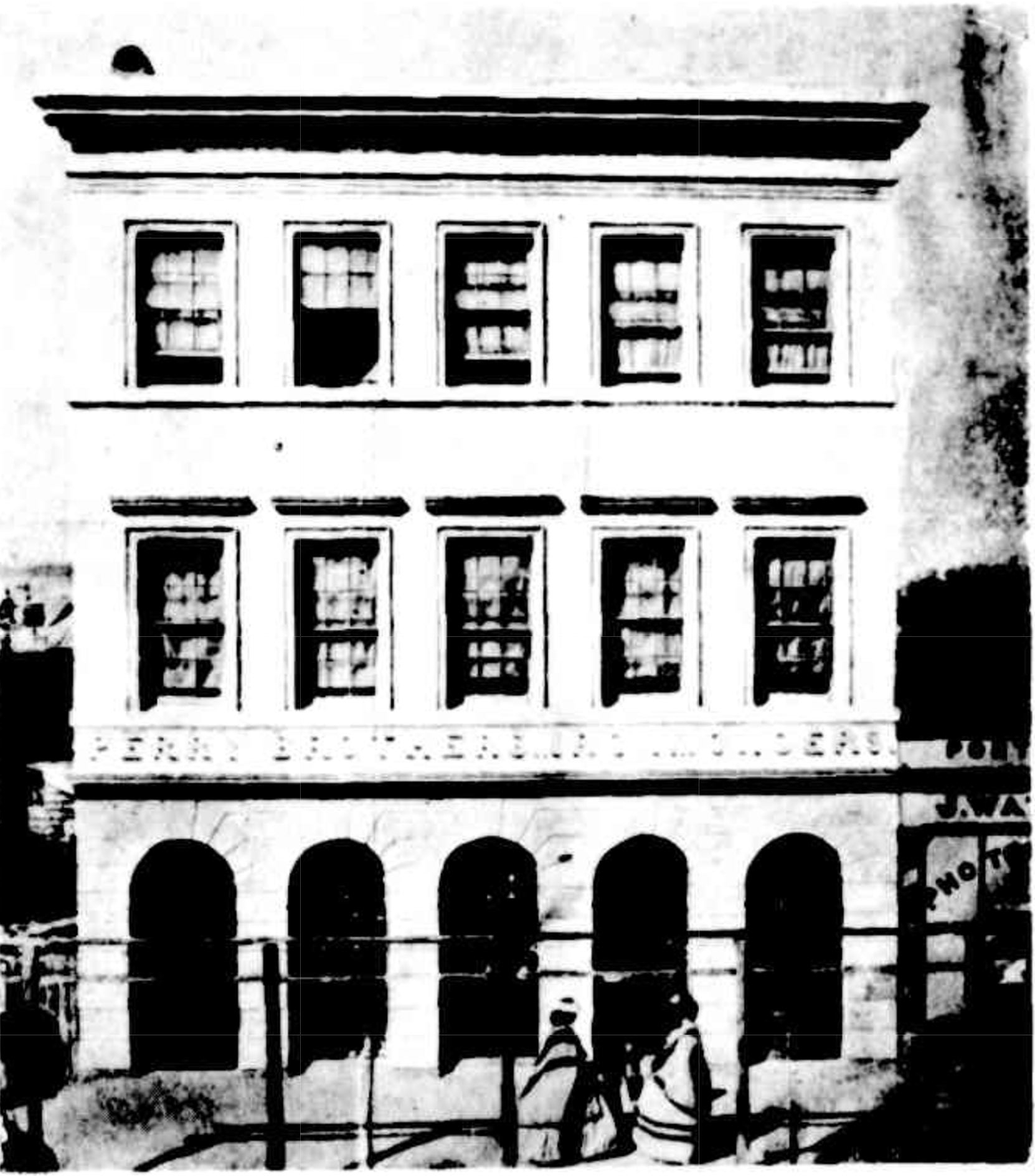 Original Perry Brothers store, Queen Street Brisbane, circa 1860, the ladies in front of the store are Mrs W. Perry and her sister